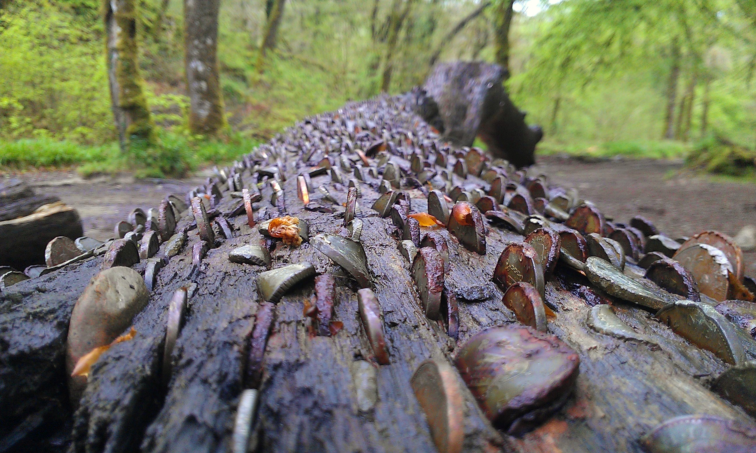 Part of a coin tree on the banks of the River Barle upstream of Tarr Steps in Exmoor, Somerset.